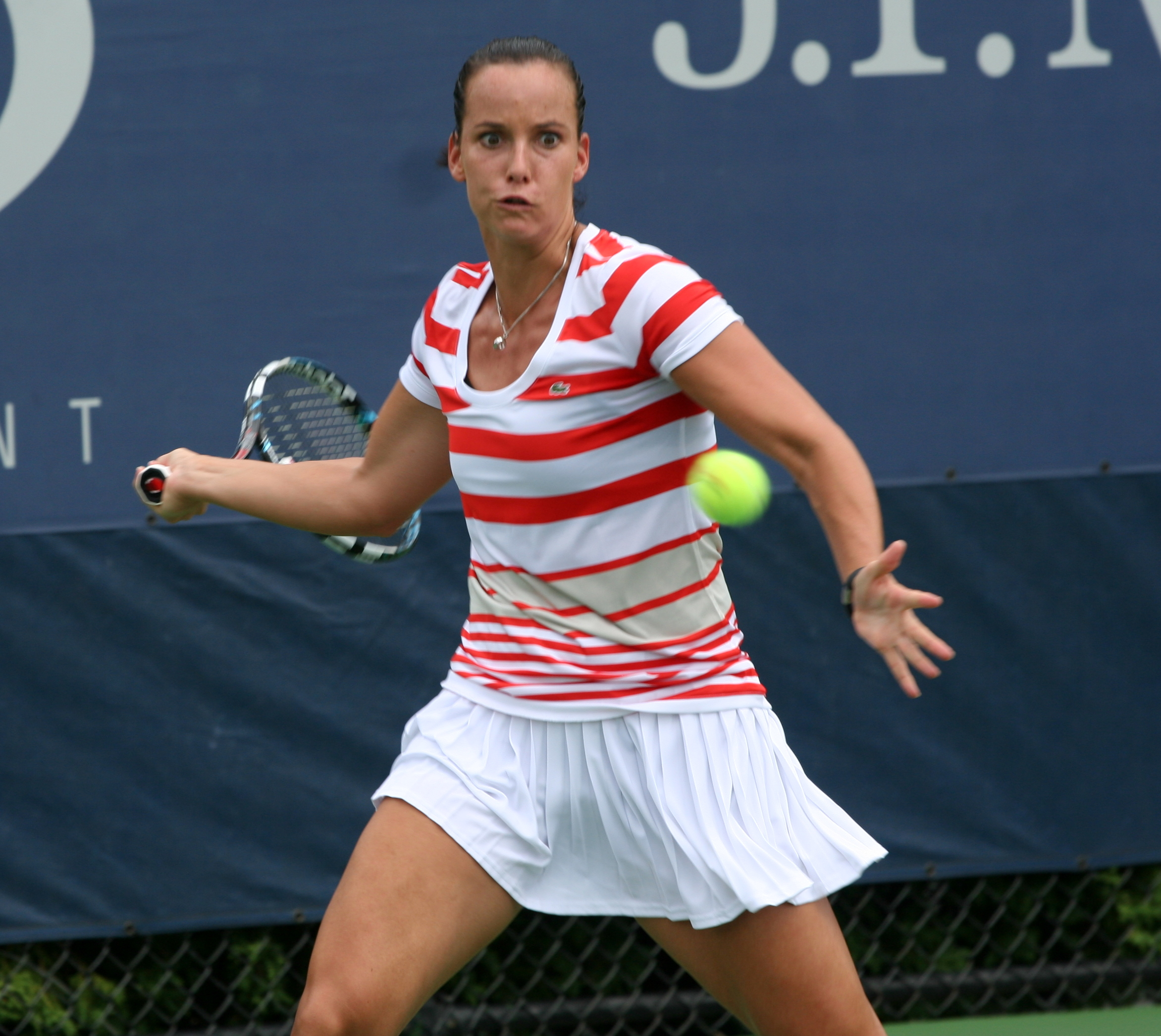 U.S. Open Monday, Aug. 27, 2012